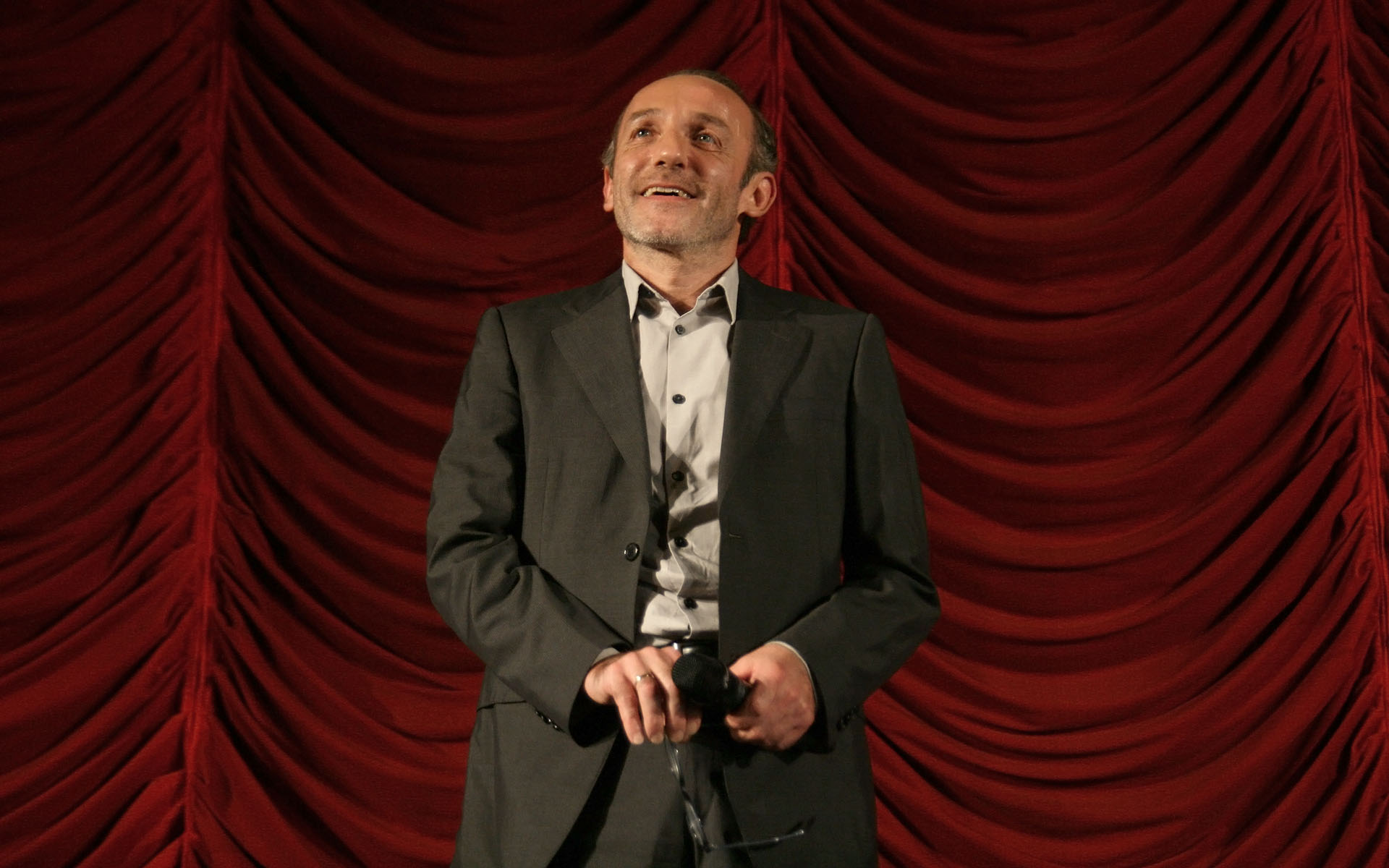 Karl Markovics at the Austrian premiere of his movie Breathing at the Gartenbaukino in Vienna.